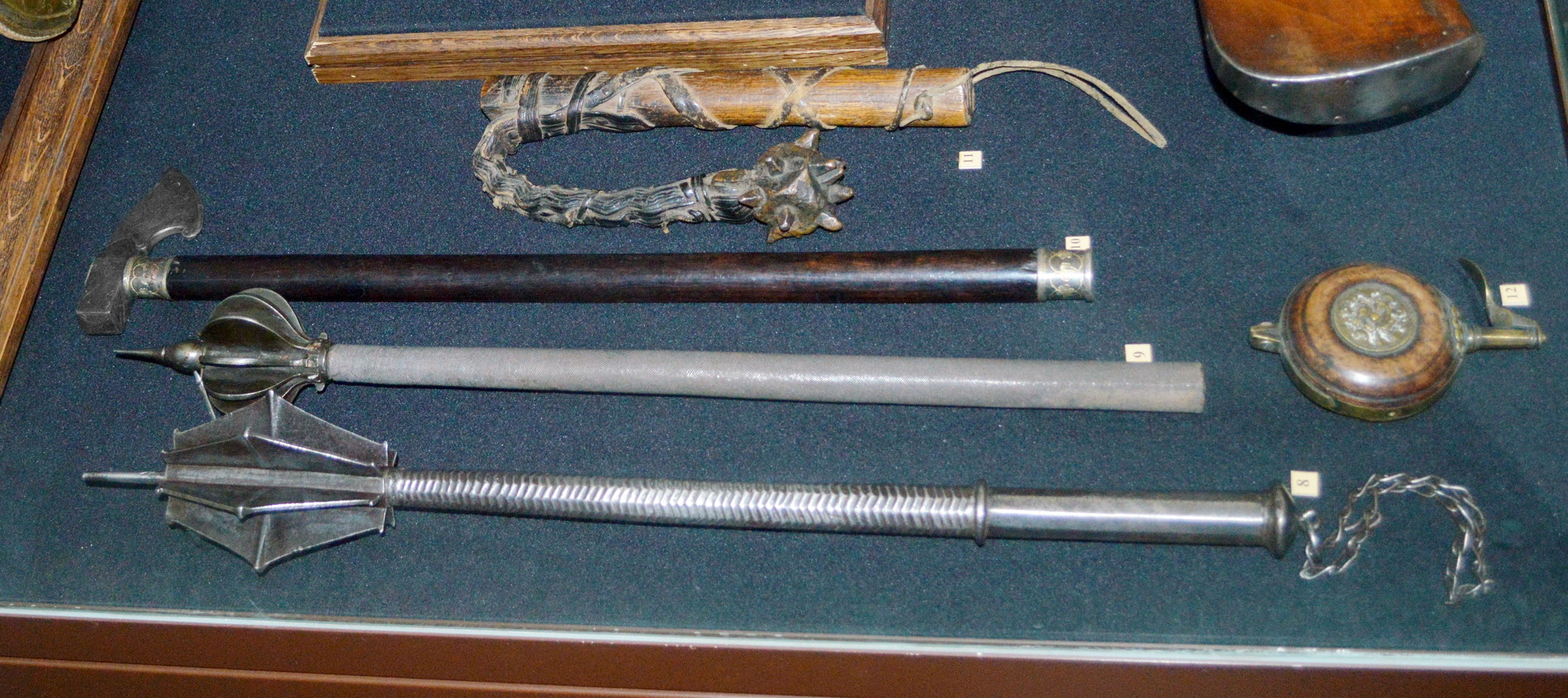 Flanged maces (15-17 c., steel), battle axe (16-17 c.), flail weapon (16 c.).